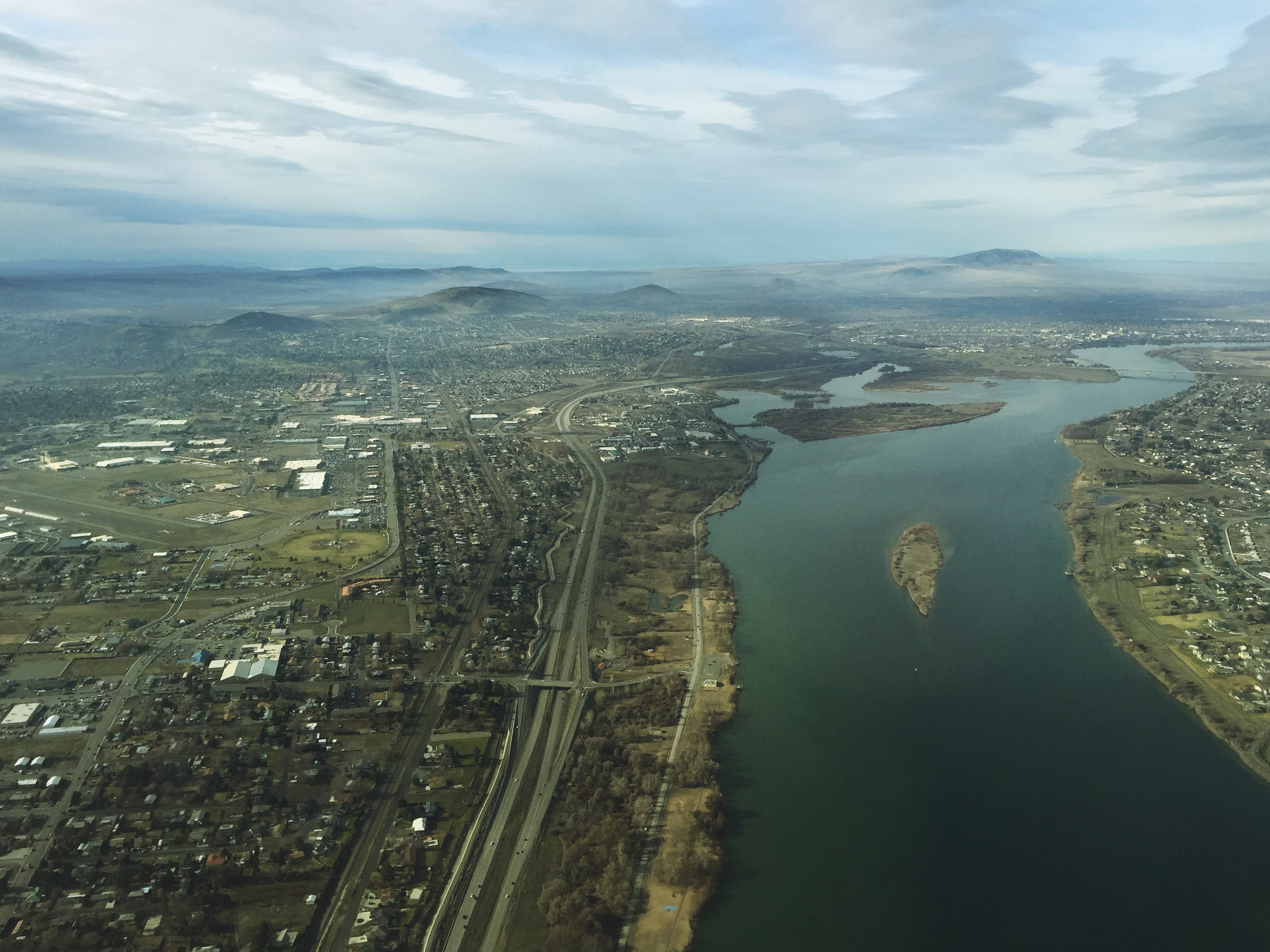 Kennewick-ColumbiaRiverAerial